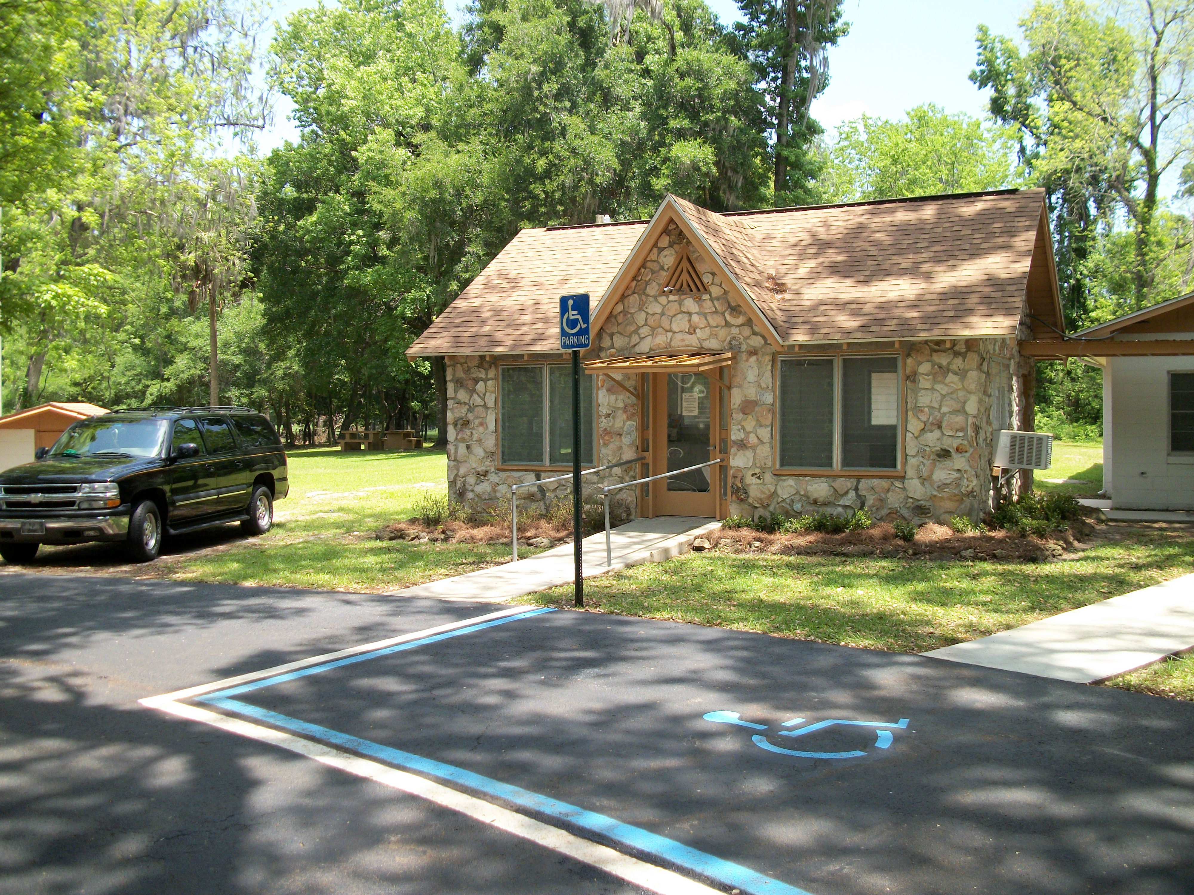 The Wahoo Community Building's Kitchen and Shelter, part of Wahoo Trailhead on the DeSoto Trail on Sumter County Road 48 in Wahoo, Florida. In the background, you can see a picnic table, and perhaps the shelter to a well.